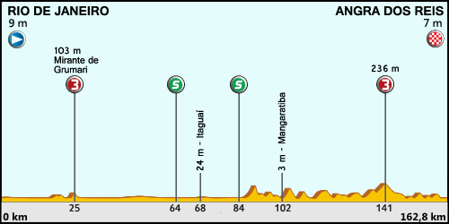 Profile of the 1st stage of the 2013 Tour do Rio